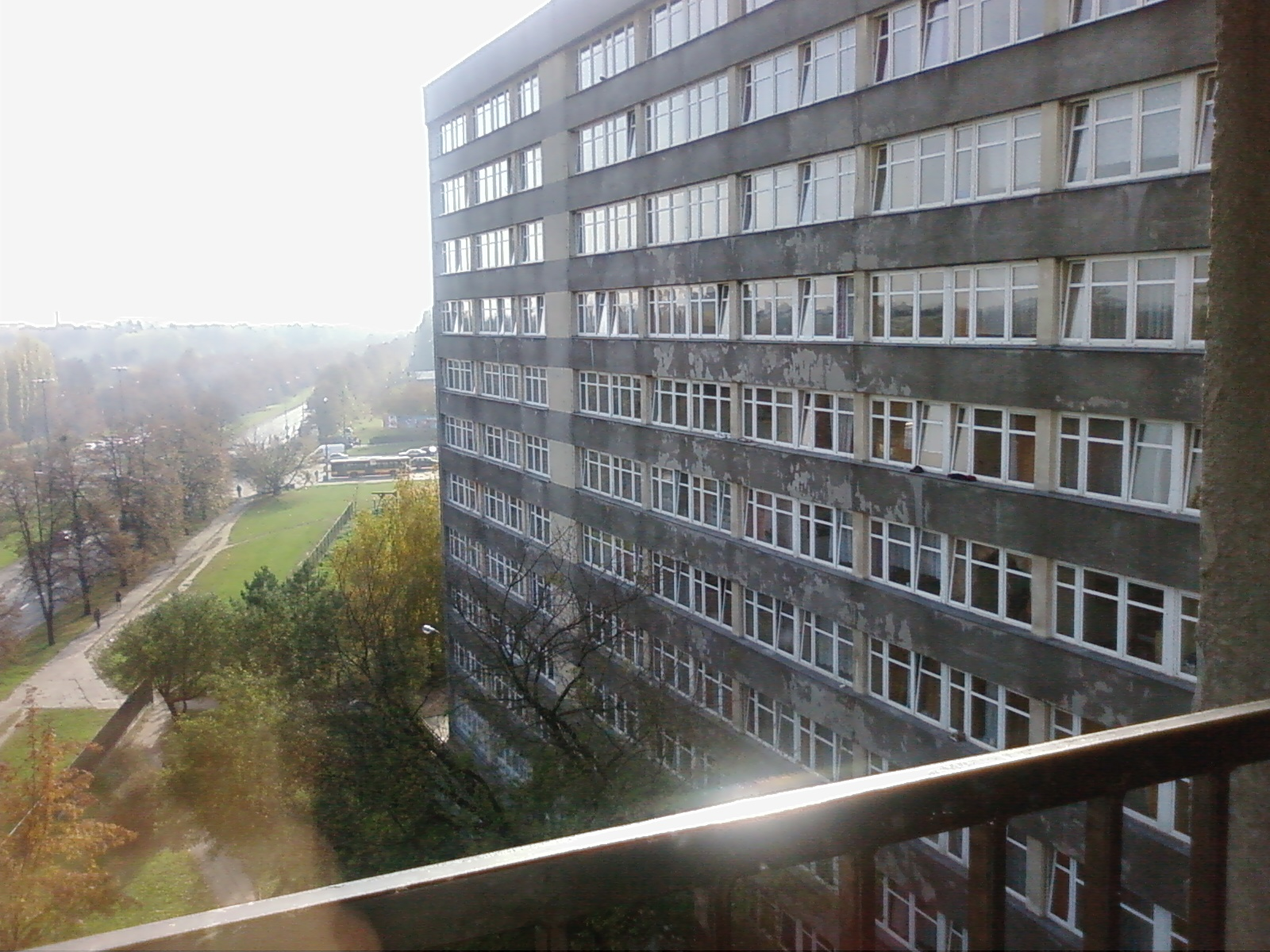 Warsaw University Dormitory, Student House nr 2 (DS2) Zwirek, Campus Ochota, Warsaw